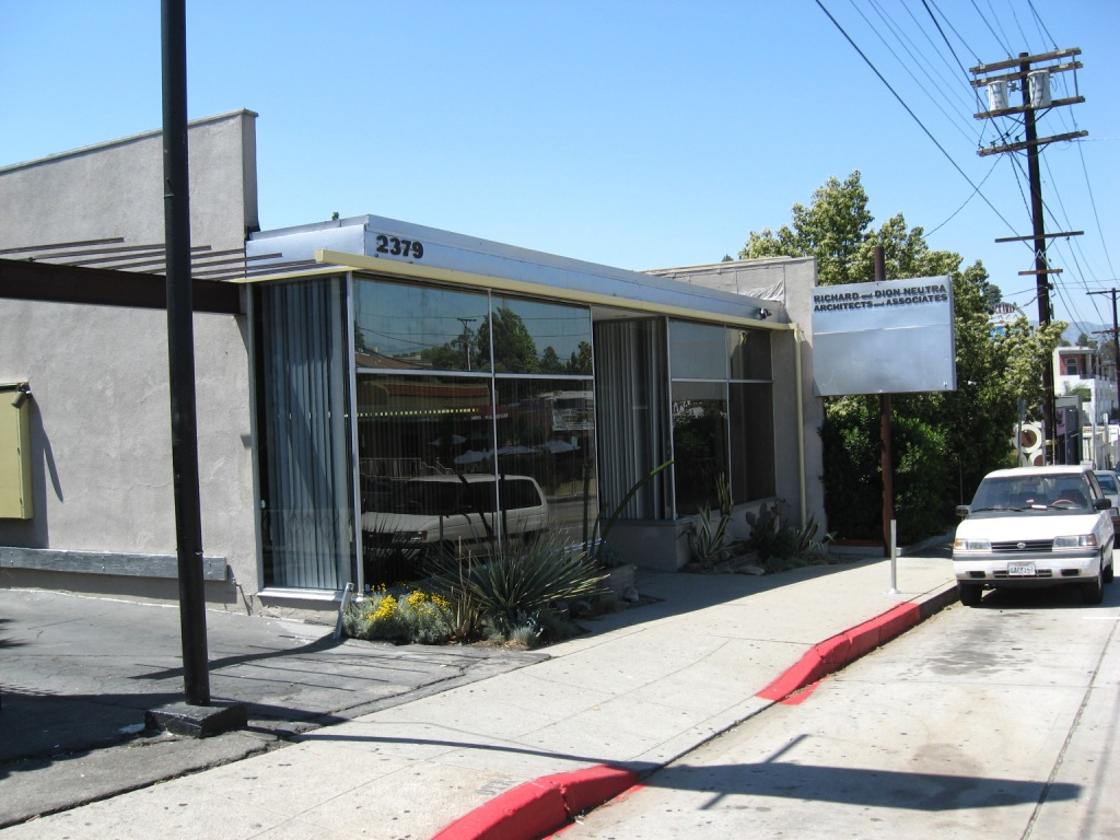 Neutra Building, Los Angeles, California